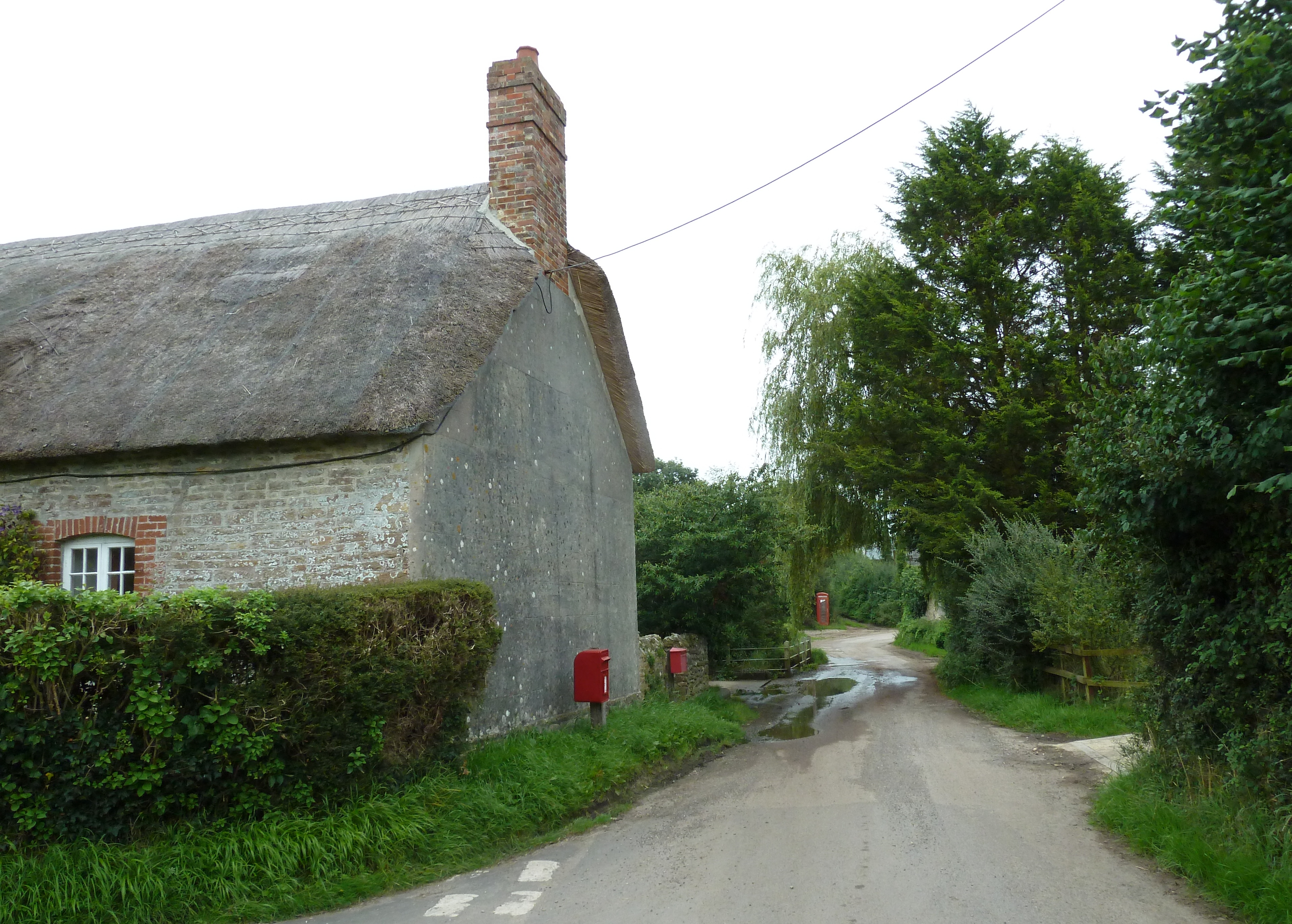 The tiny hamlet of Redford in rural Dorset